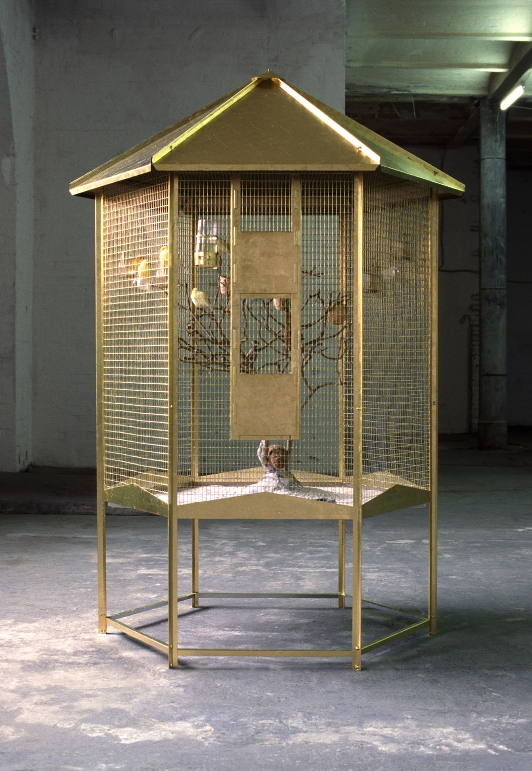 Canettis Cage, 2003, Scupture/Installation, Artist: Sandra Mann